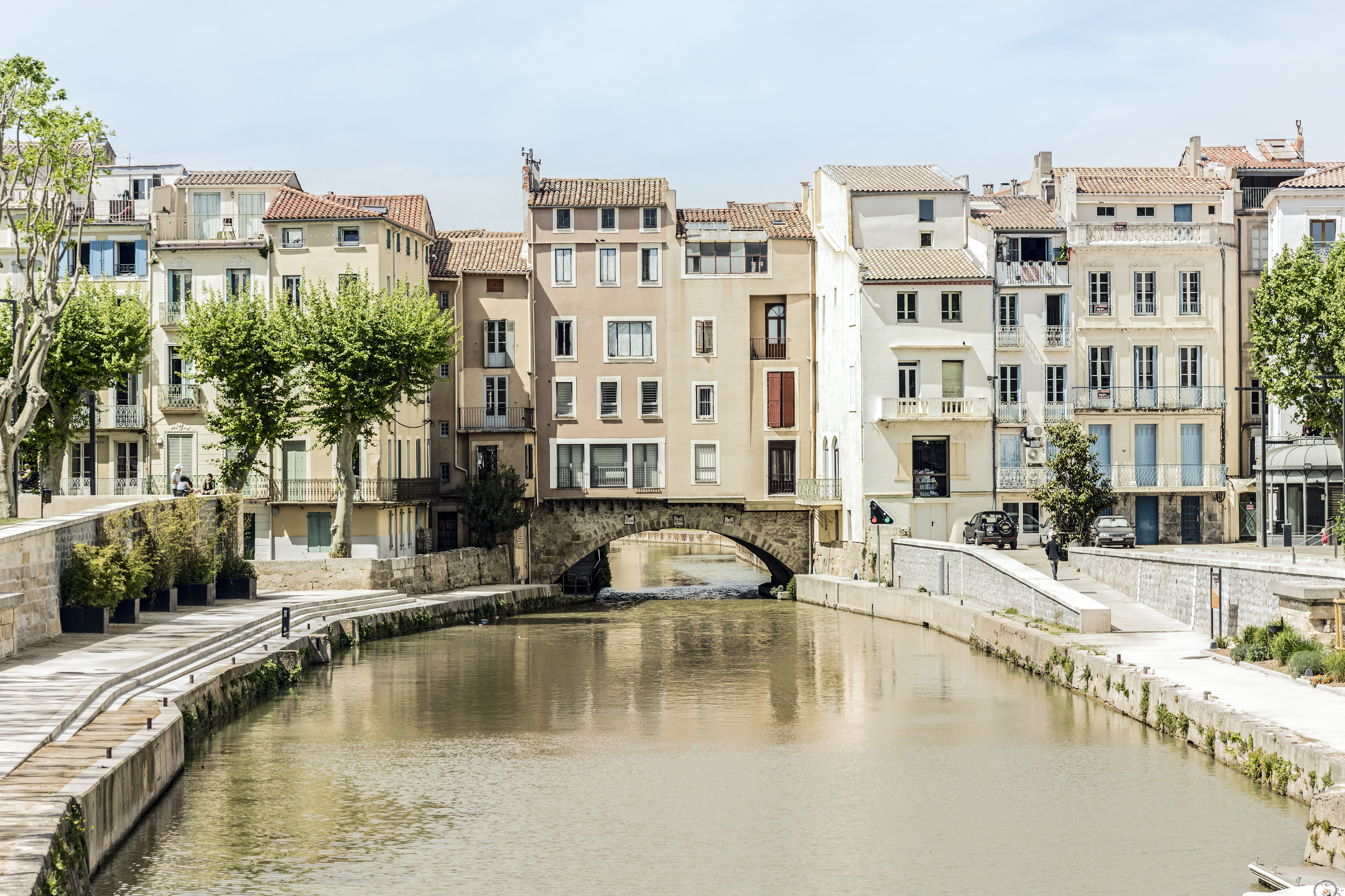 The Pont des Marchands ("Merchant's Bridge") is an old bridge across the Canal de la Robine in Narbonne, Aude department, Occitanie, France.